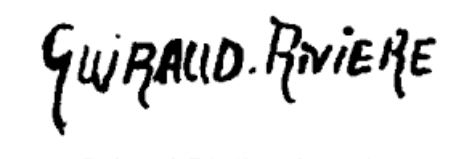 Signature of Maurice Guiraud-Rivière